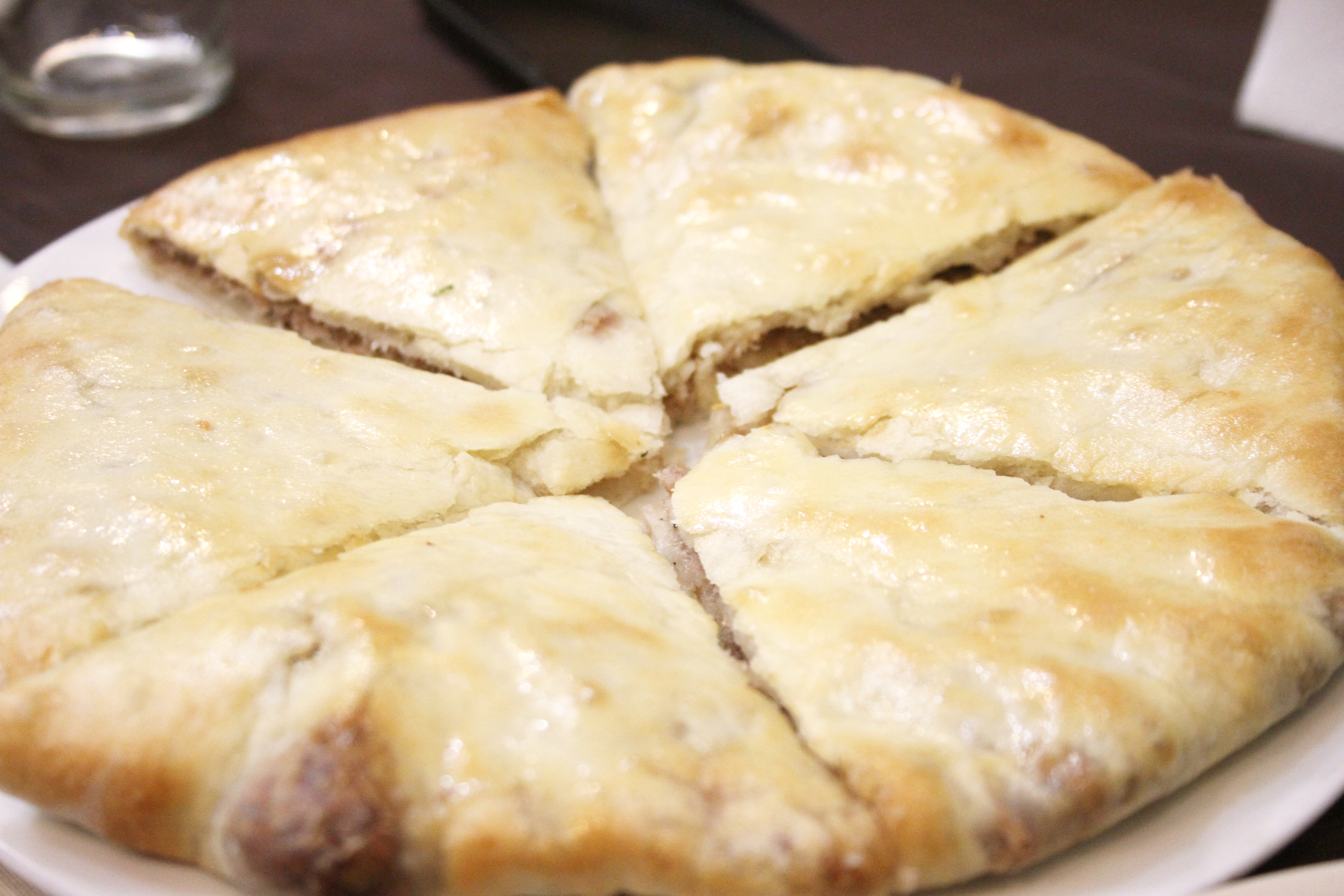 Aragvi 832 Sheppard Ave W, Toronto